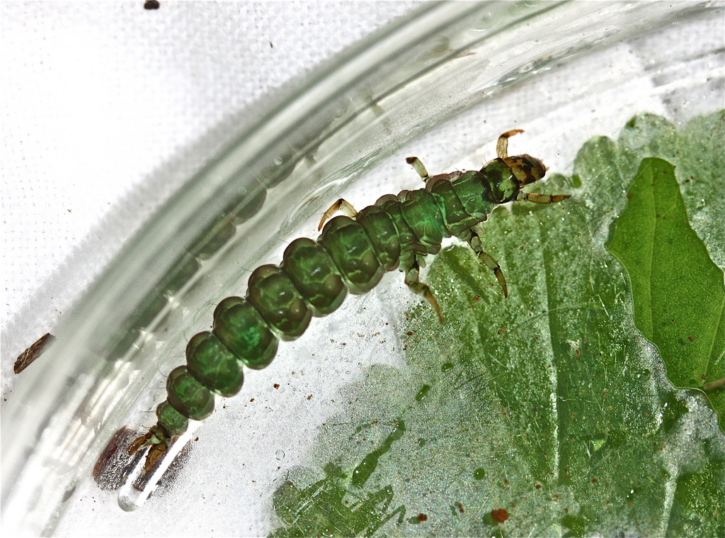 Taken by Bob Henricks on 13 June 2011. Rights reserved from CC BY-SA 2.0 license.